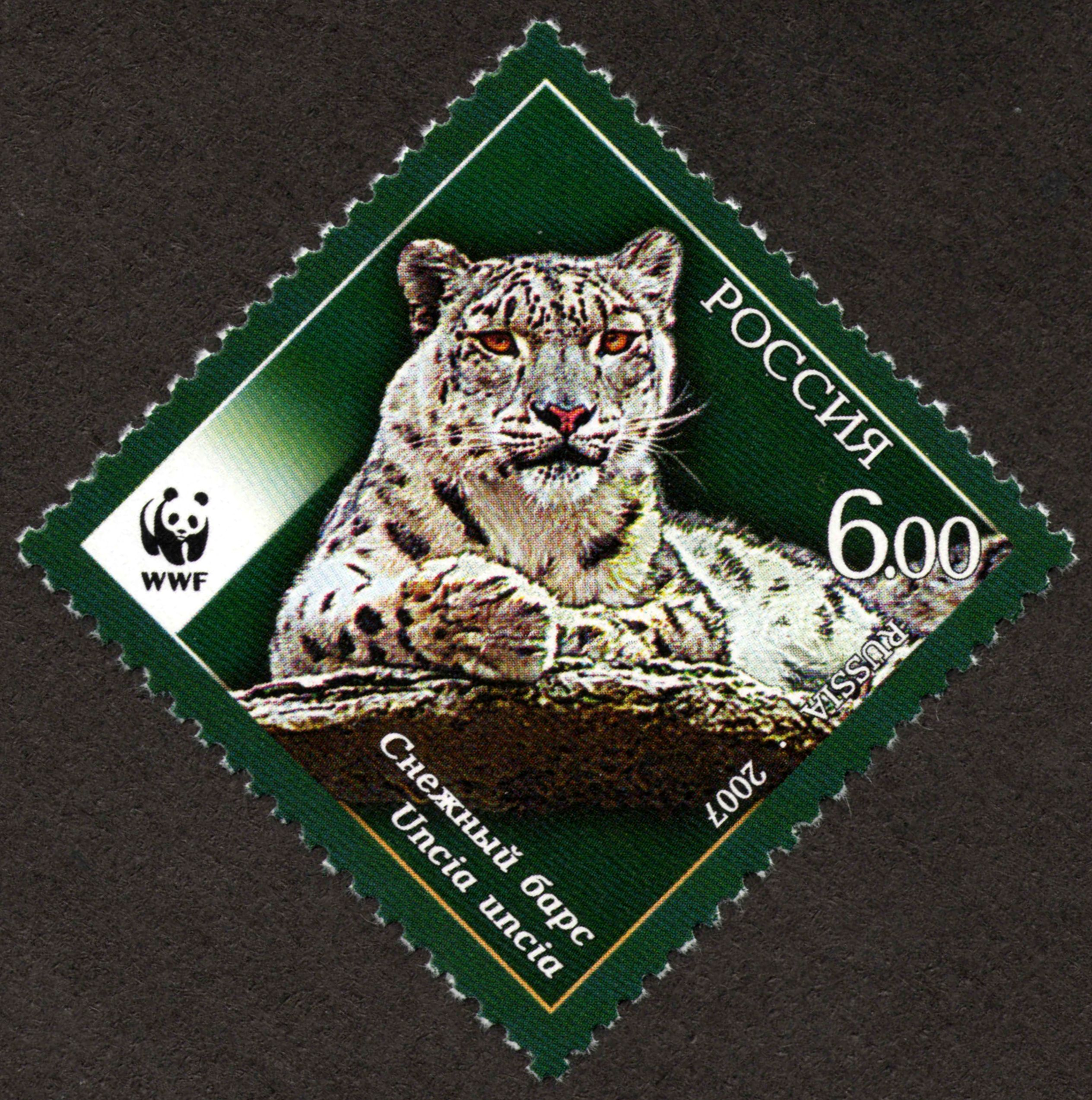 Fauna. The endangered species. Snow leopard (Panthera uncia). The stamp of Russia, 6.00 Ruble, 1 October 2007, PTC Marka Catalogue No 1203, Michel No 1435.